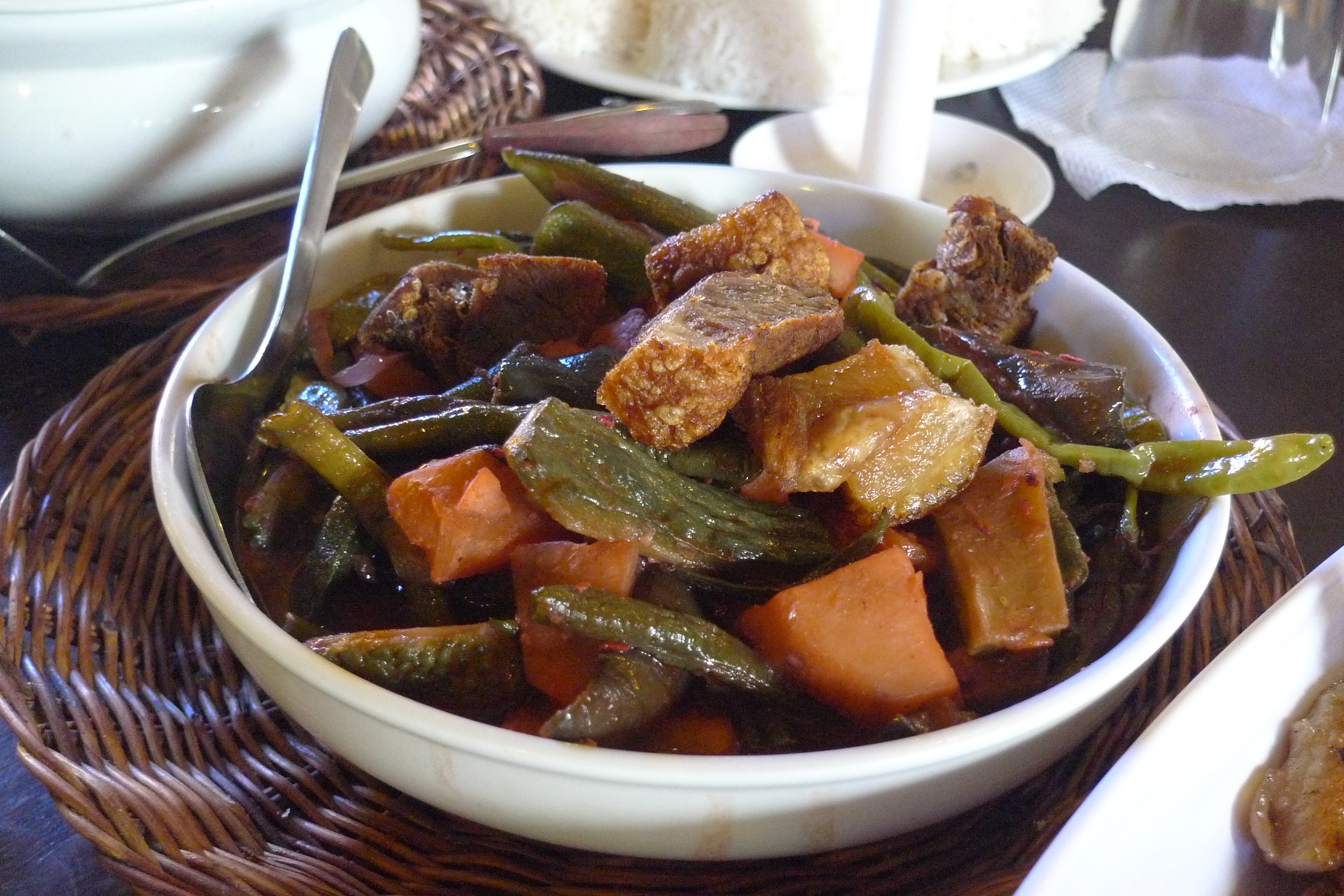 Cagayan - Genaro's Piankbet with Lechon Kawali